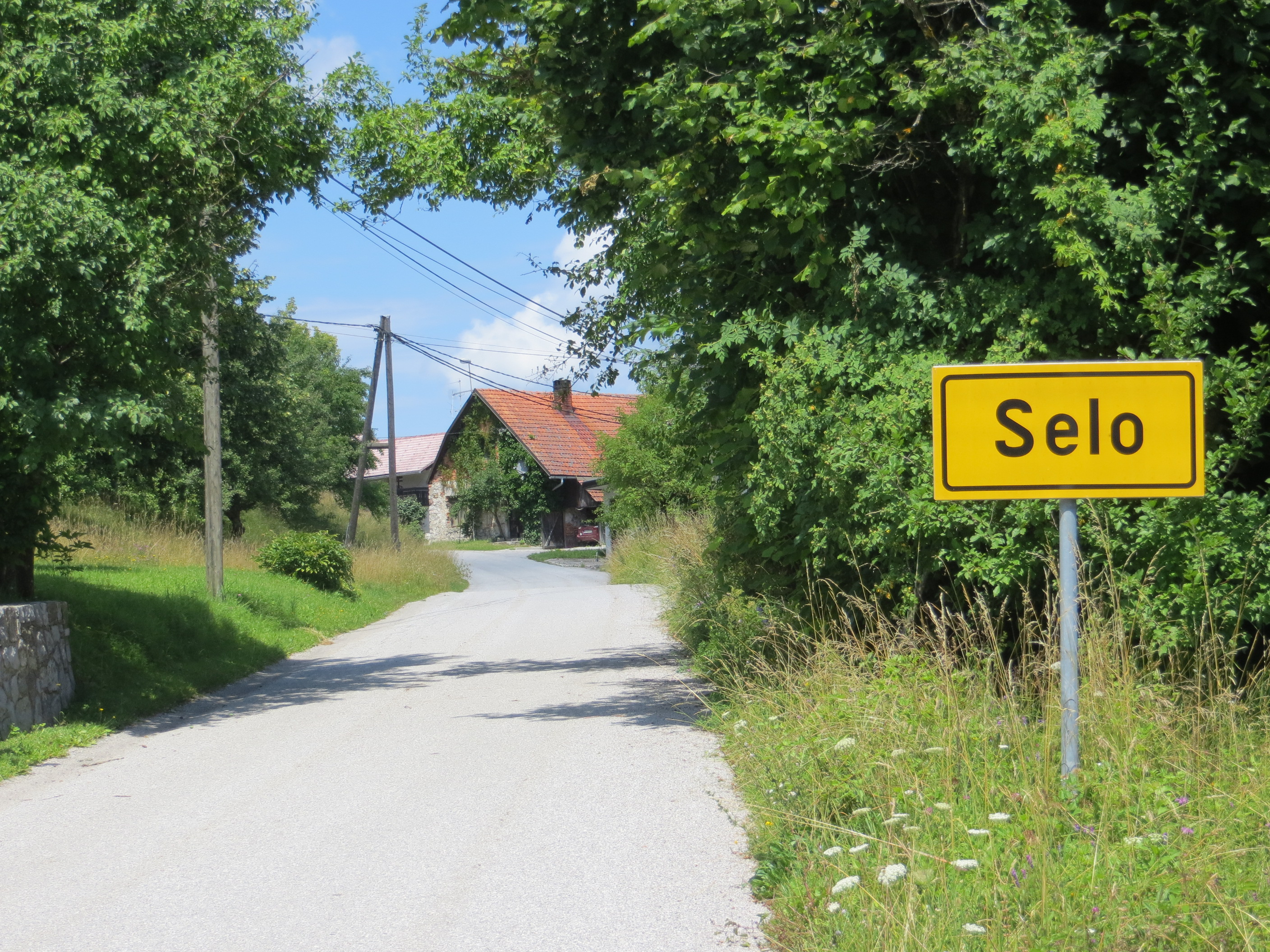 Selo pri Robu, Municipality of Velike Lašče, Slovenia